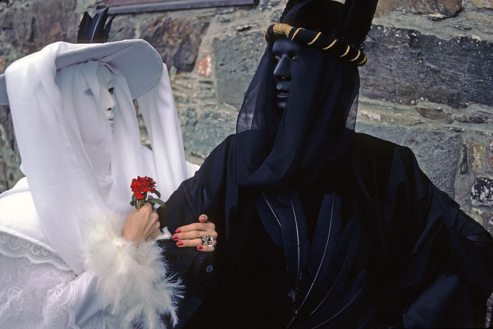 Two costumes designed and made by the Norwegian designer Lise Skjåk Bræk for the exhibition "Dreams and realities" (1985)